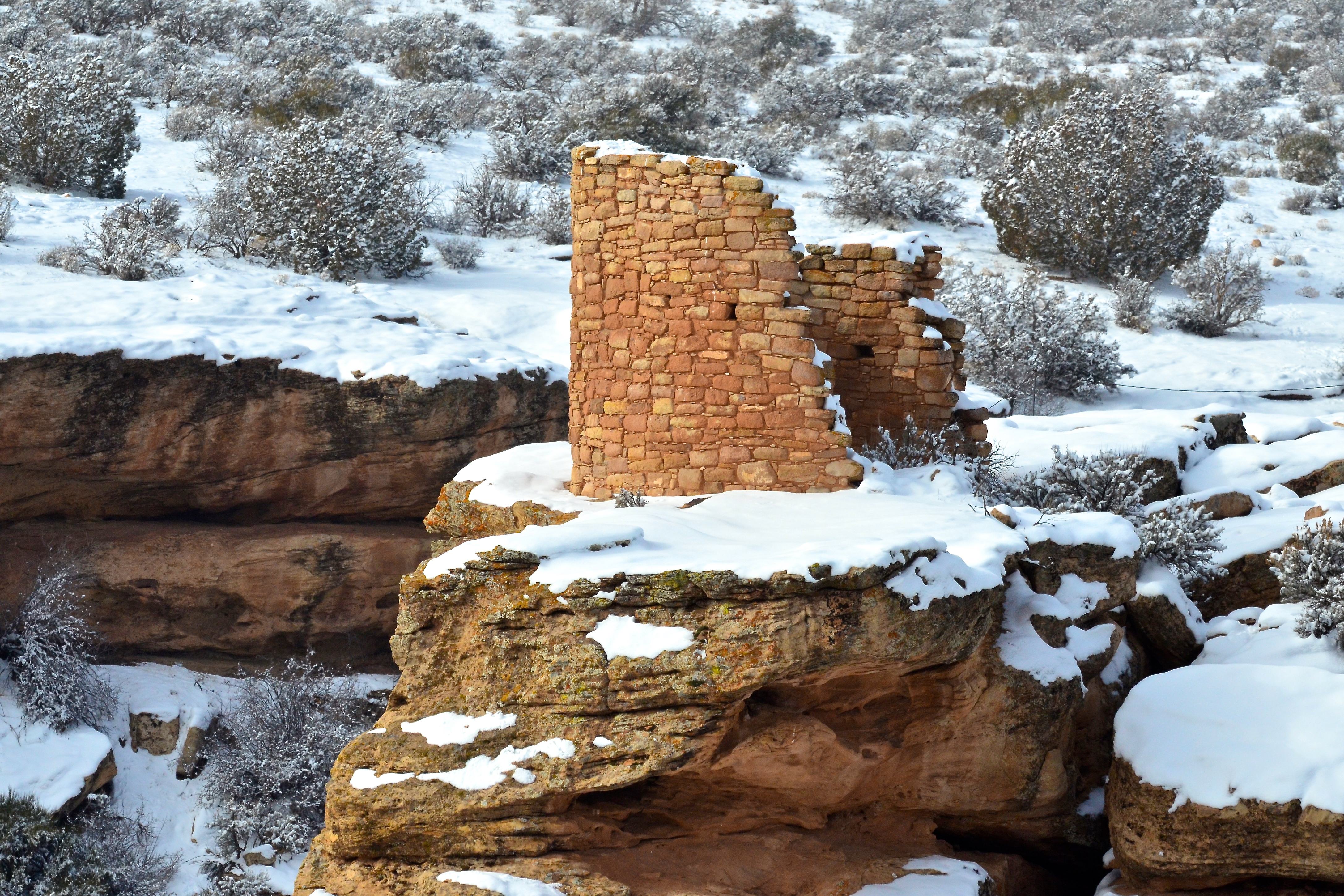 Old Pueblo Ruins. Horseshoe tower, I'm pretty sure.